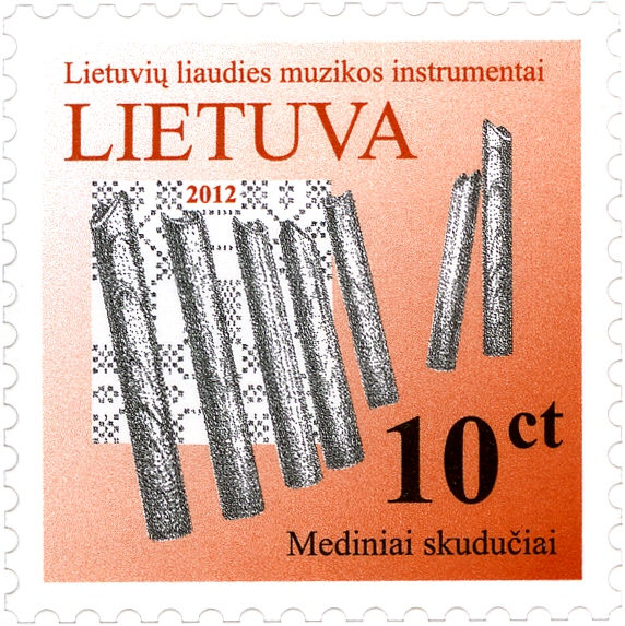 Stamps of Lithuania, 2012